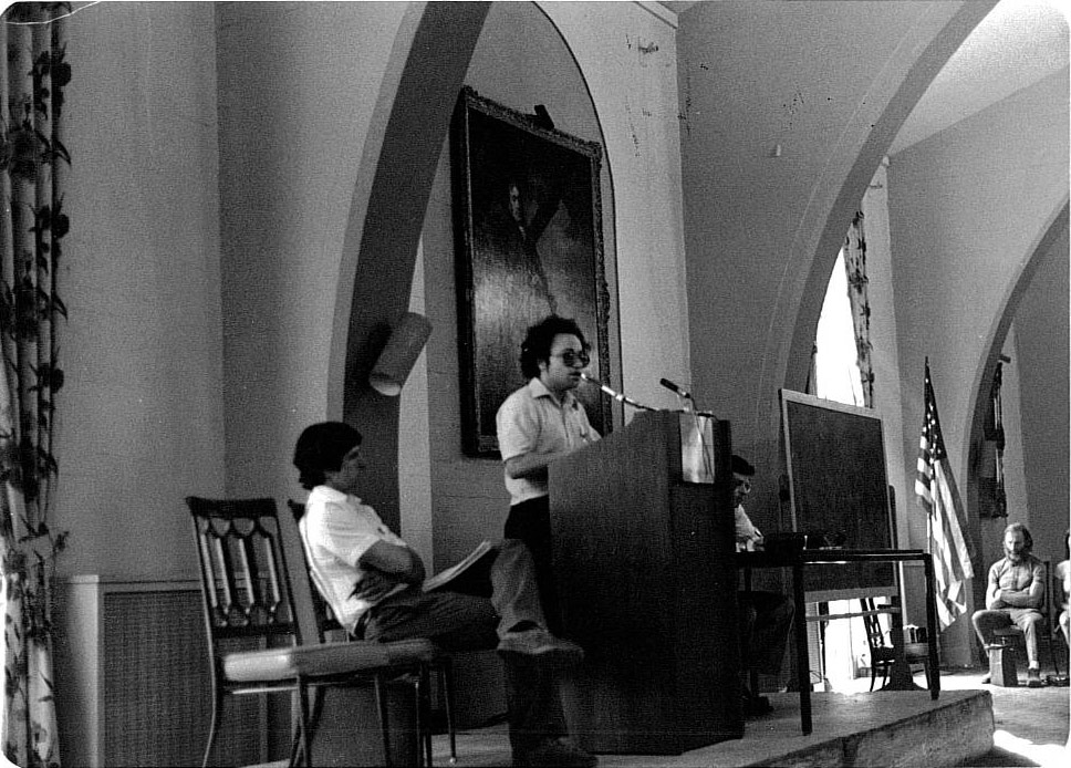 Photo1-of-FOF-Con-1977-debate-Friedmand-vs-Hayden